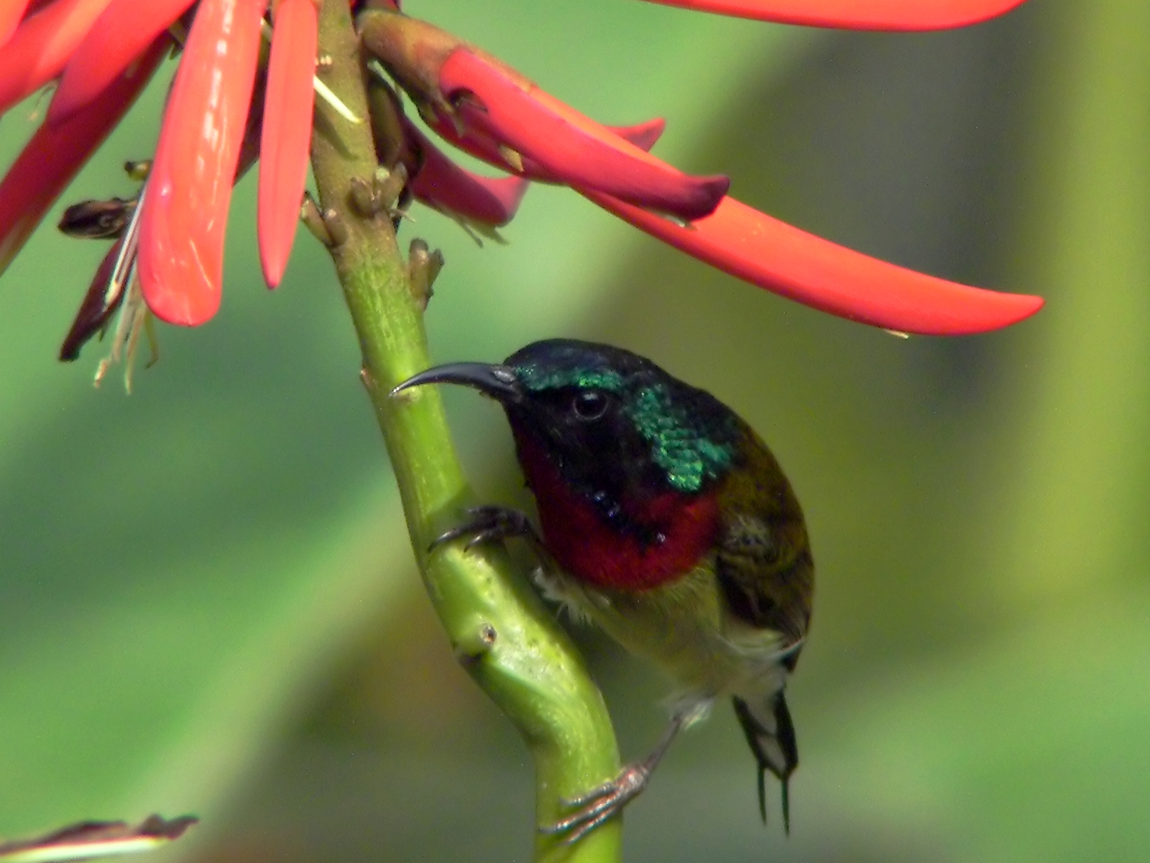 Fork Tailed Sunbird (Aethopyga christinae)